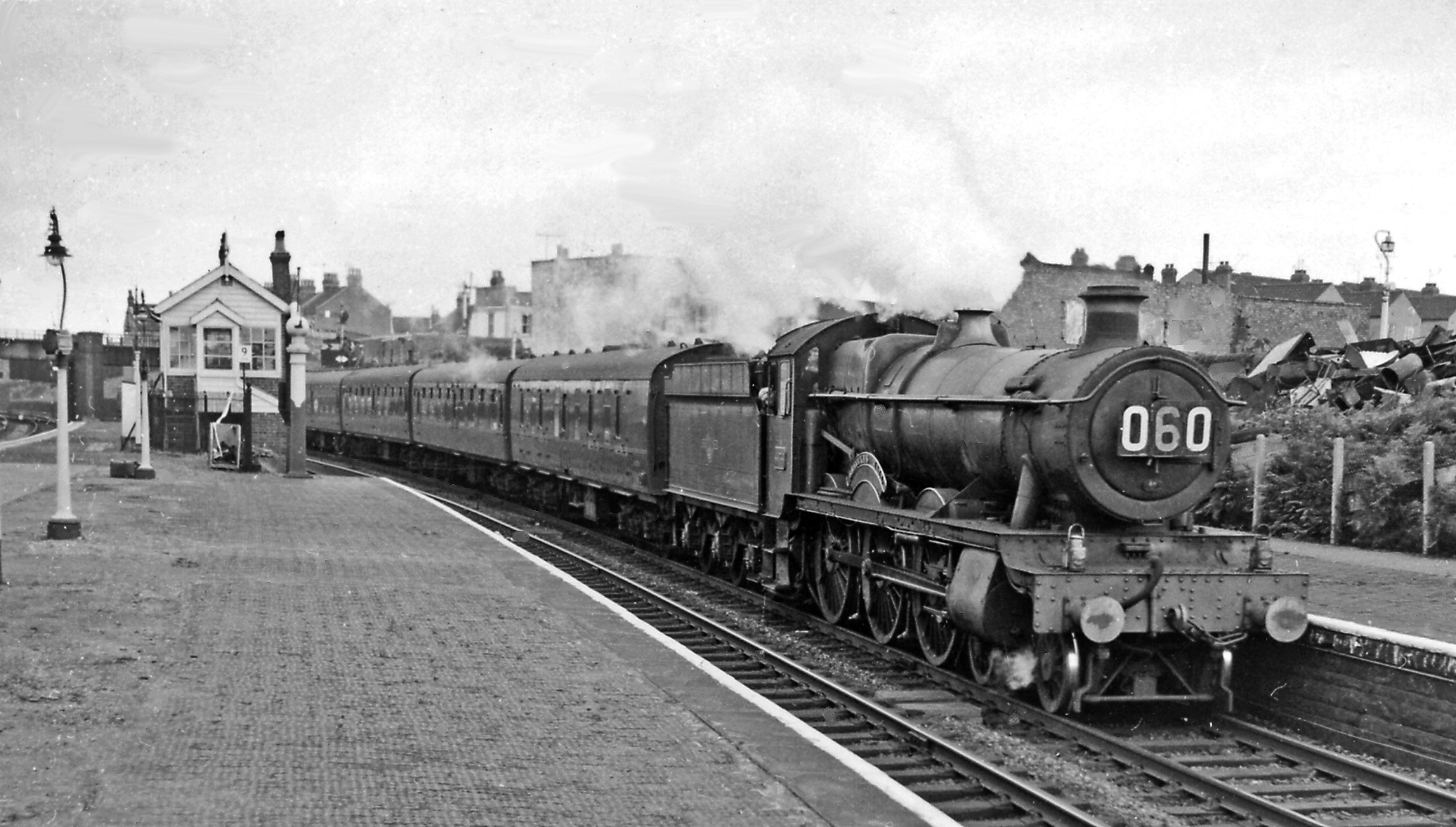 Cardiff - Portsmouth express passing Lawrence Hill. View northward on the ex-GW main lines out of Bristol, towards Filton Junction, Severn Tunnel and South Wales, also Birmingham via Cheltenham and London via Badminton and Swindon. The 12.50 Cardiff - Portsmouth, which has called at Stapleton Road, will turn east to Bath, Westbury and Salisbury to reach Portsmouth Harbour (due 14.18).